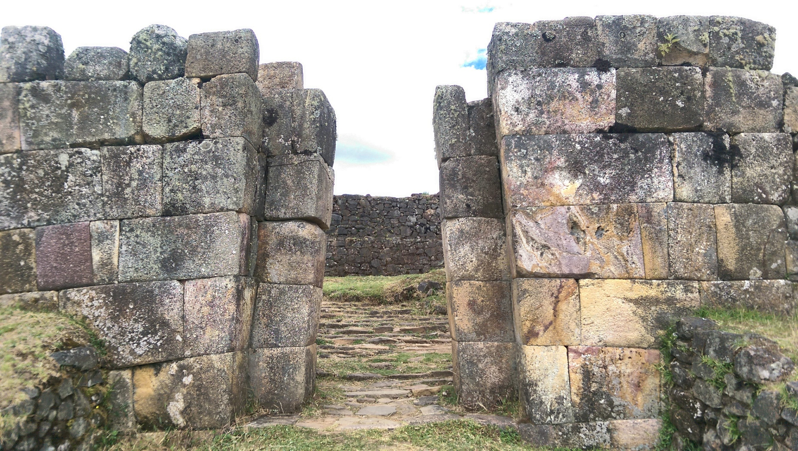 A close front view of the gate of the Acllawasi at the historical site of Aypate in the Department of Piura, Peru